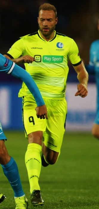 Laurent Depoitre